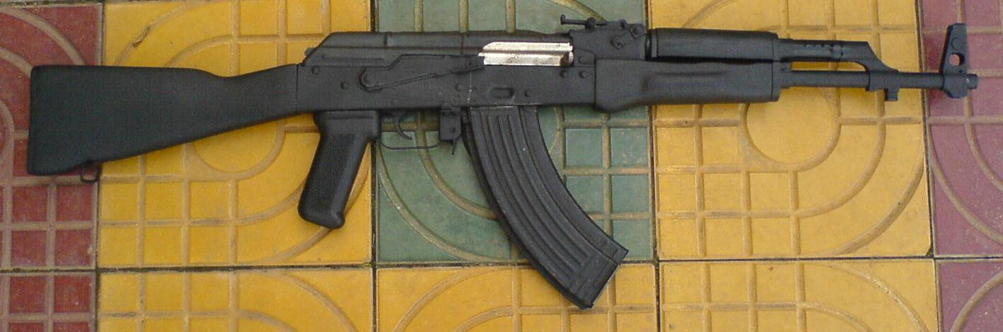 Cambodian AKM